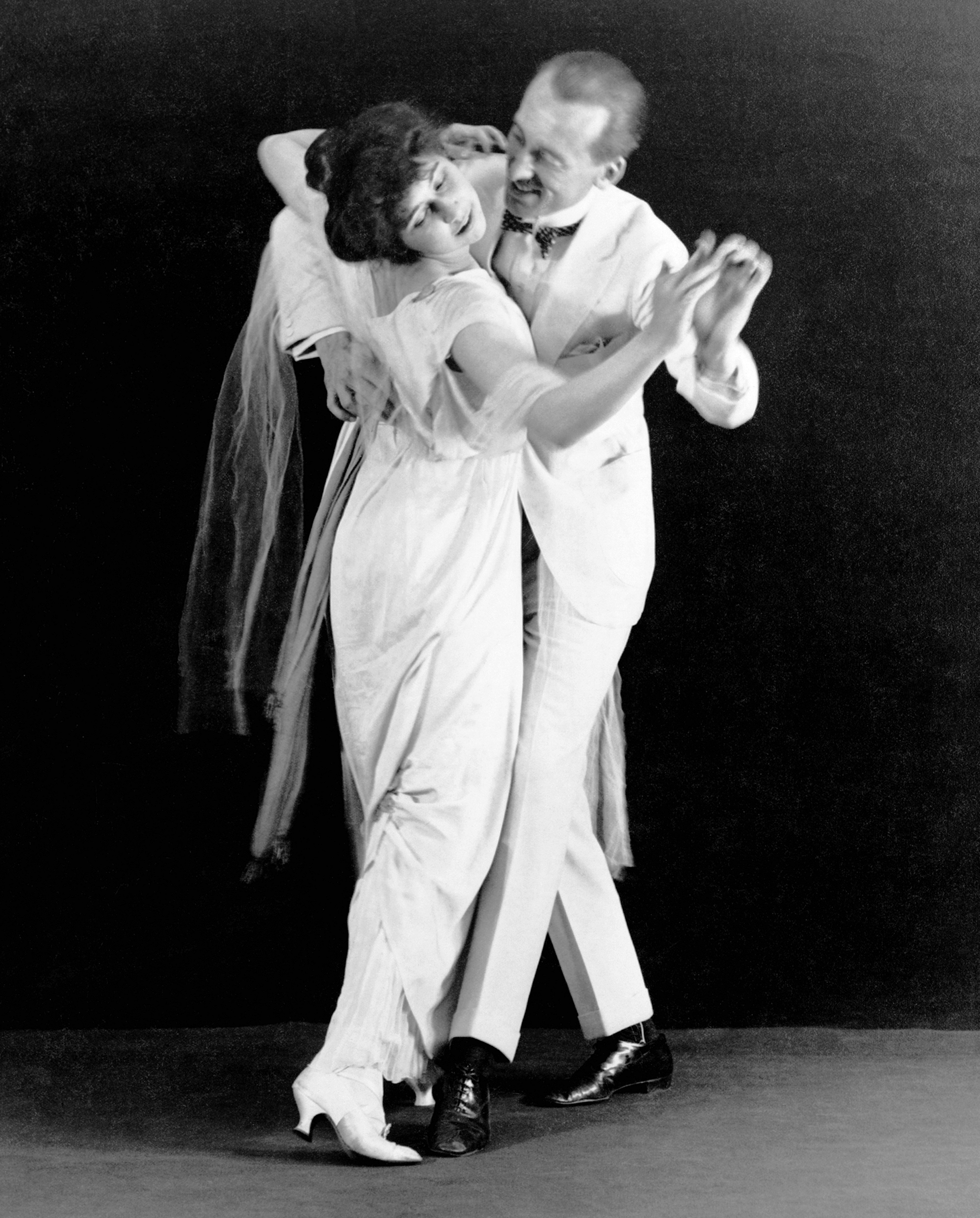 Dancers Vernon and Irene Castle. Gelatin silver print.